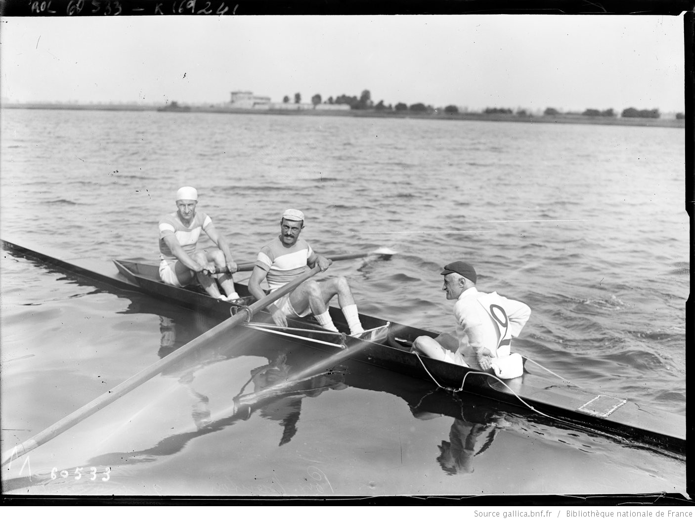 Poix, Button, Barberolle (cox): winners of the coxed pair of the European Rowing Championships, Mâcon